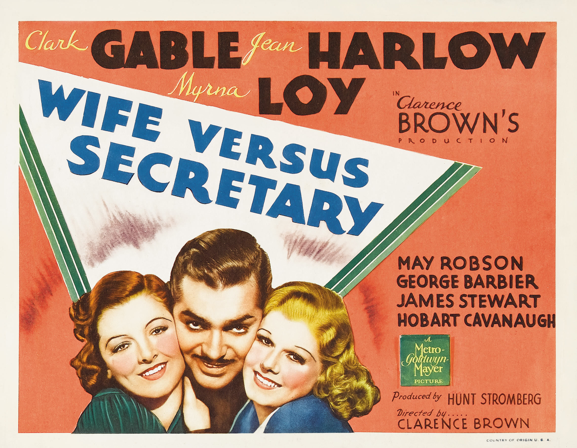 Lobby card for Wife vs. Secretary, a 1936 comedy